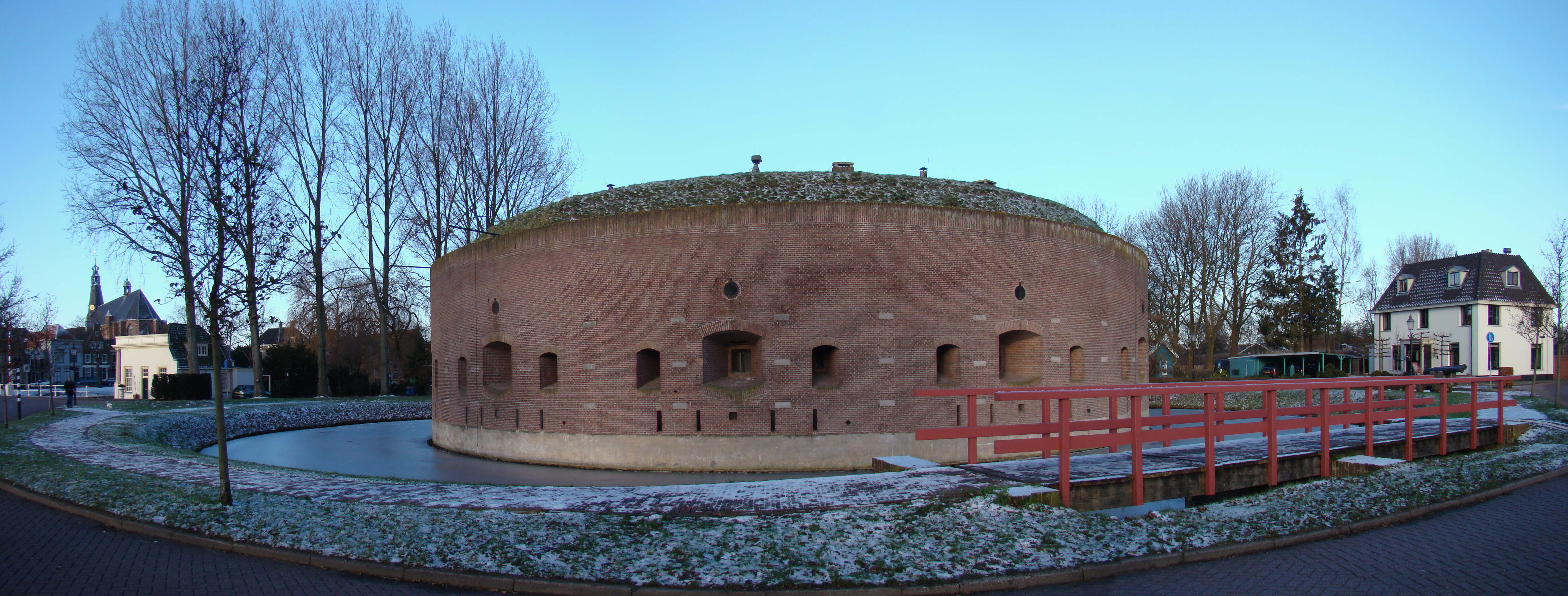 Fortres at Weesp (Netherlands) at the Ossenmarkt